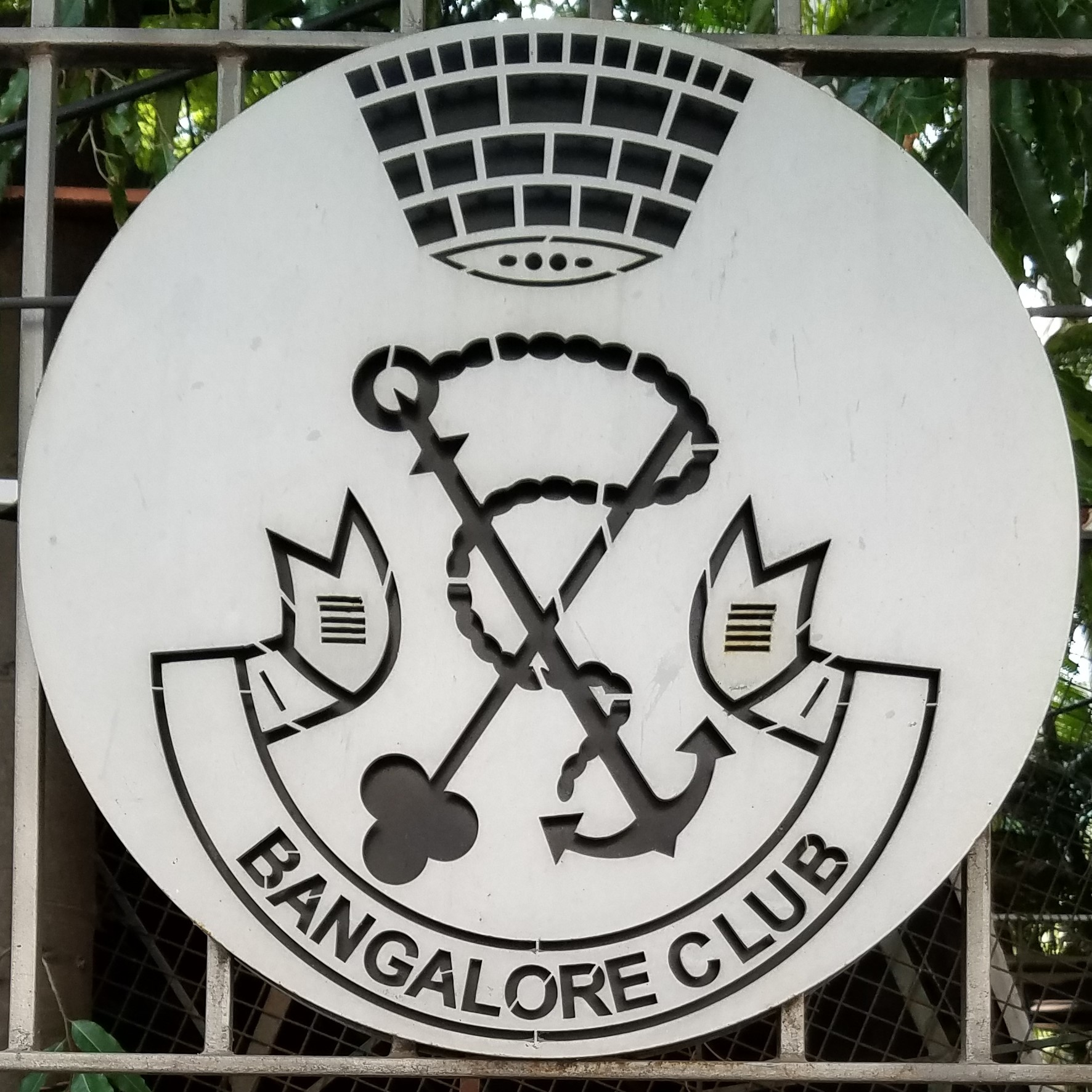 Bangalore Club logo, as seen on the fence along Residency Road